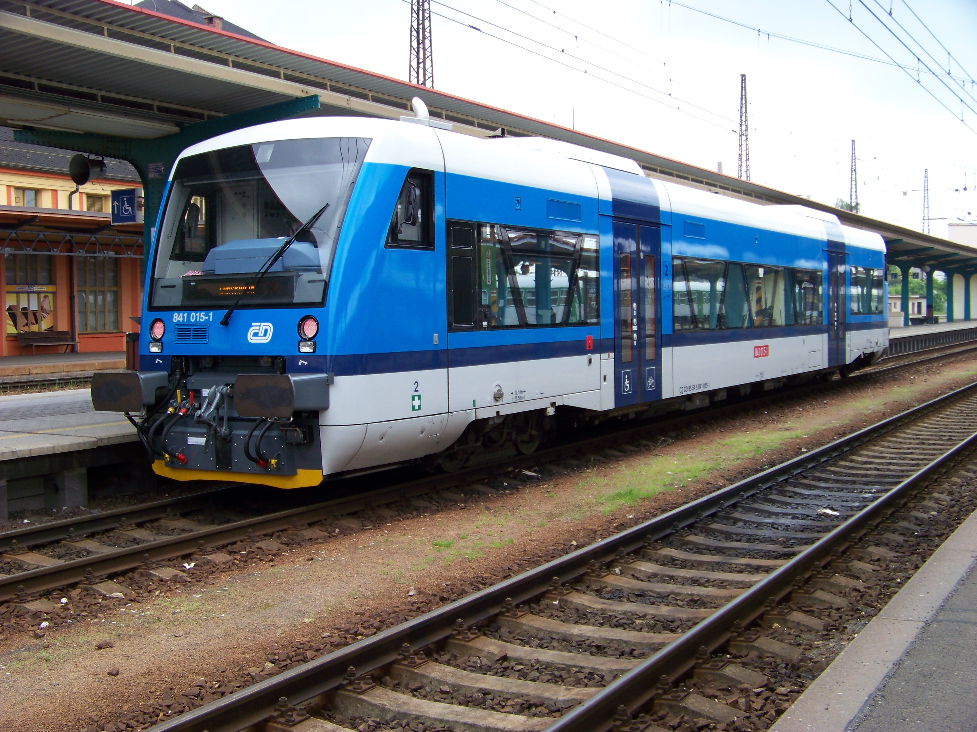 Česká Třebová, Ústí nad Orlicí District, Pardubice Region. A train station, a motor car class 841.